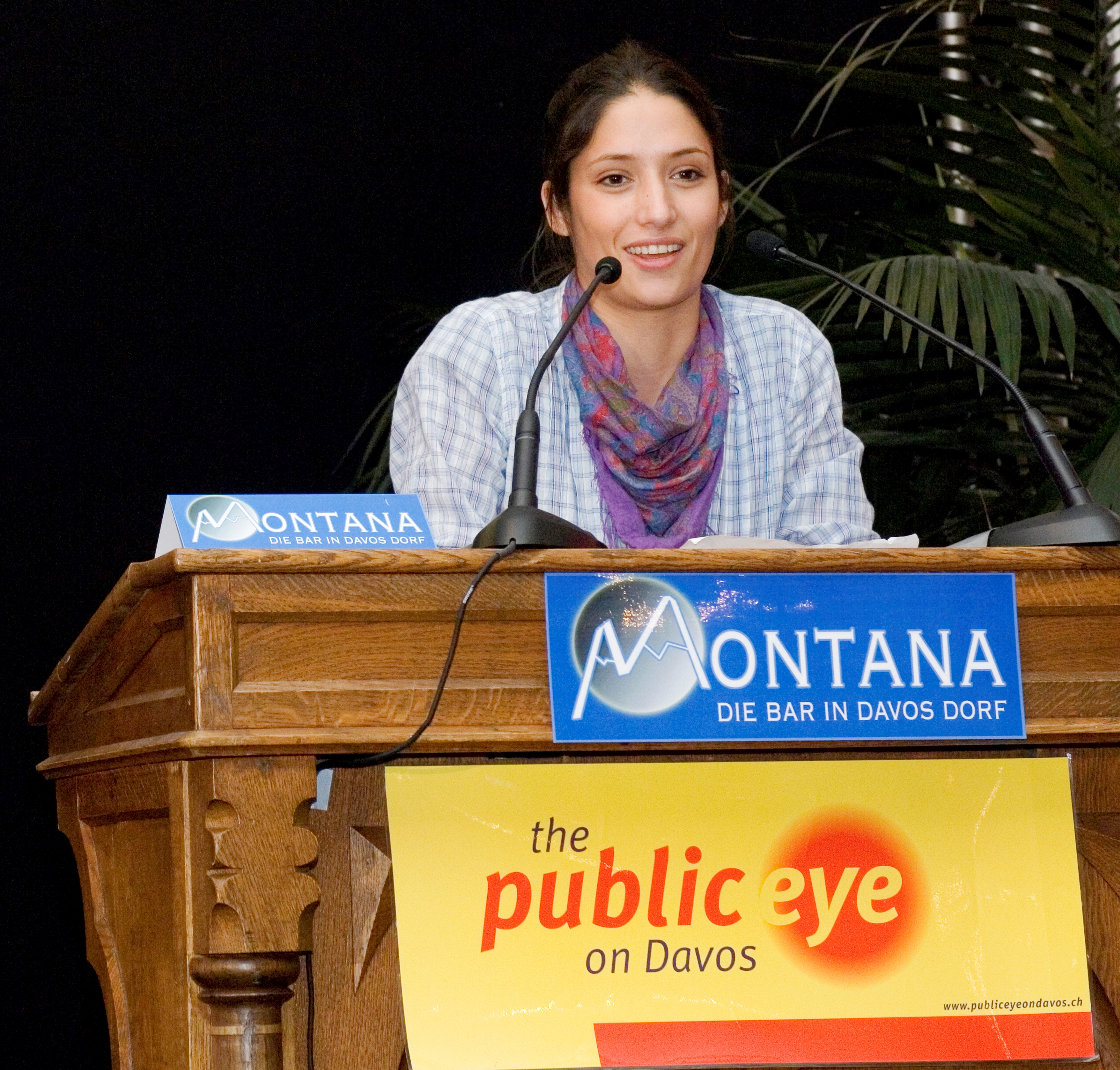 Melanie Winiger at the Public Eye Awards 2008, Davos, Schweiz, © nitsch.ch